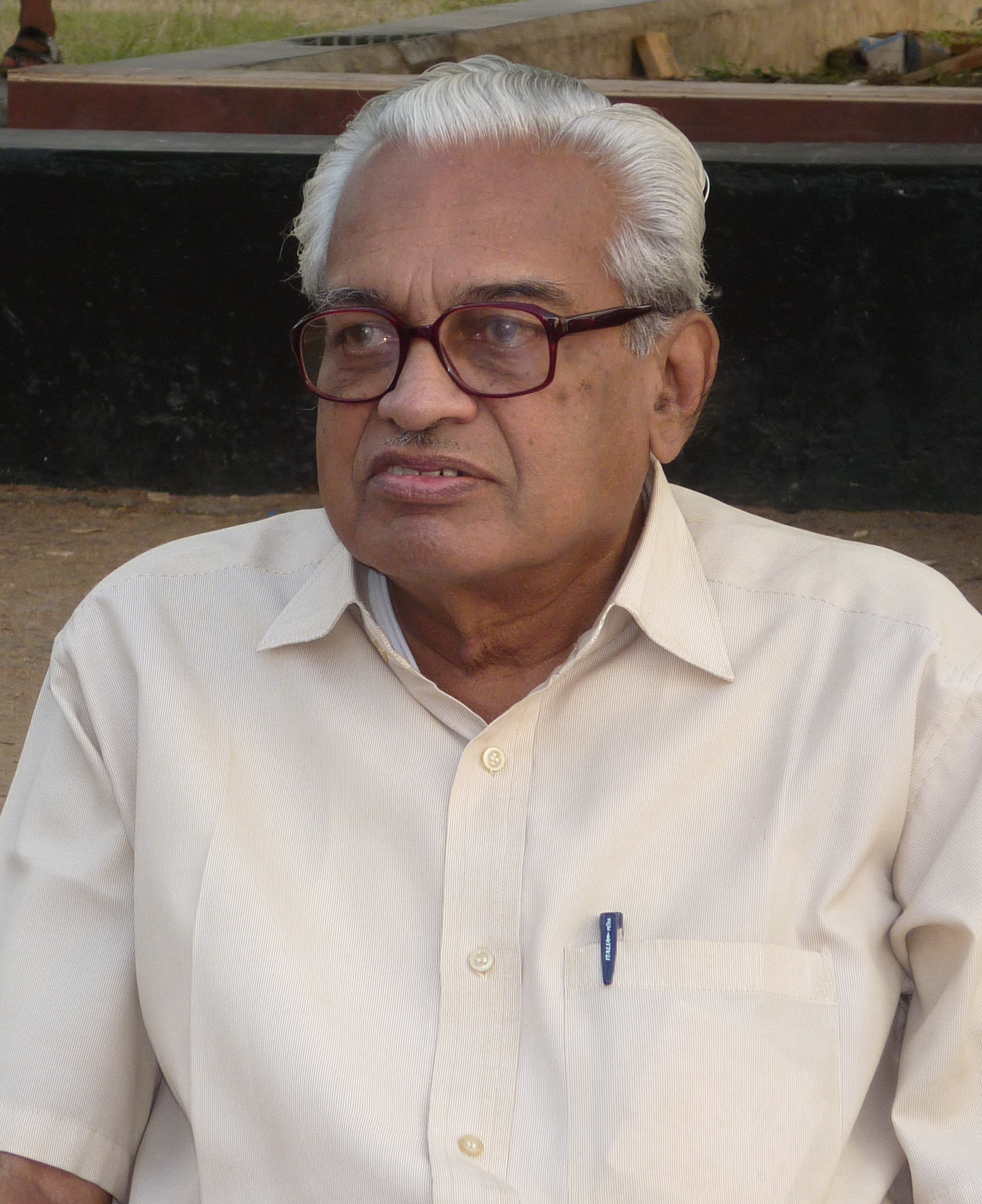 A trade union leader in India